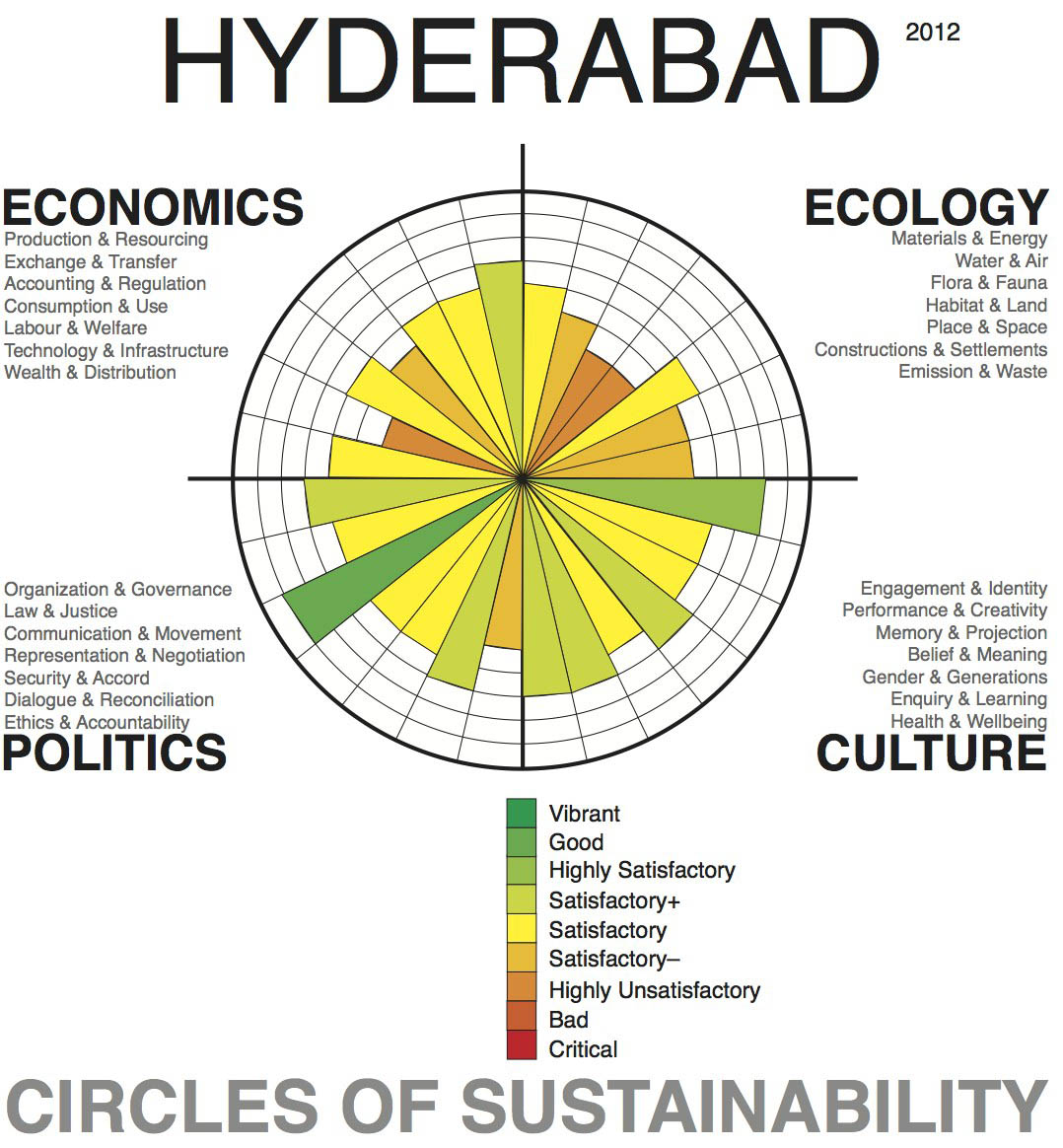 Urban sustainability analysis of the greater urban area of the city using the 'Circles of Sustainability' method of the UN Global Compact Cities Programme